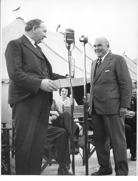 Photograph of Thomas Playford IV, left, receiving a barometer as a gift from Sir James Bisset, right, at the opening of the Birkenhead Terminal, Port Adelaide, 29th September 1950.